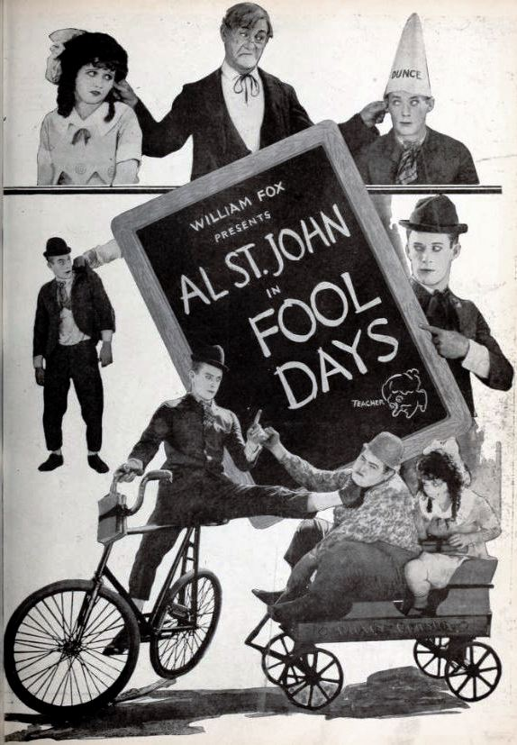 Advertisement for the American comedy short film Fool Days (1921) with Al St. John, Hilliard Karr, Alice Davenport, and Ford West, on page 3 of the December 24, 1921 Exhibitors Herald.